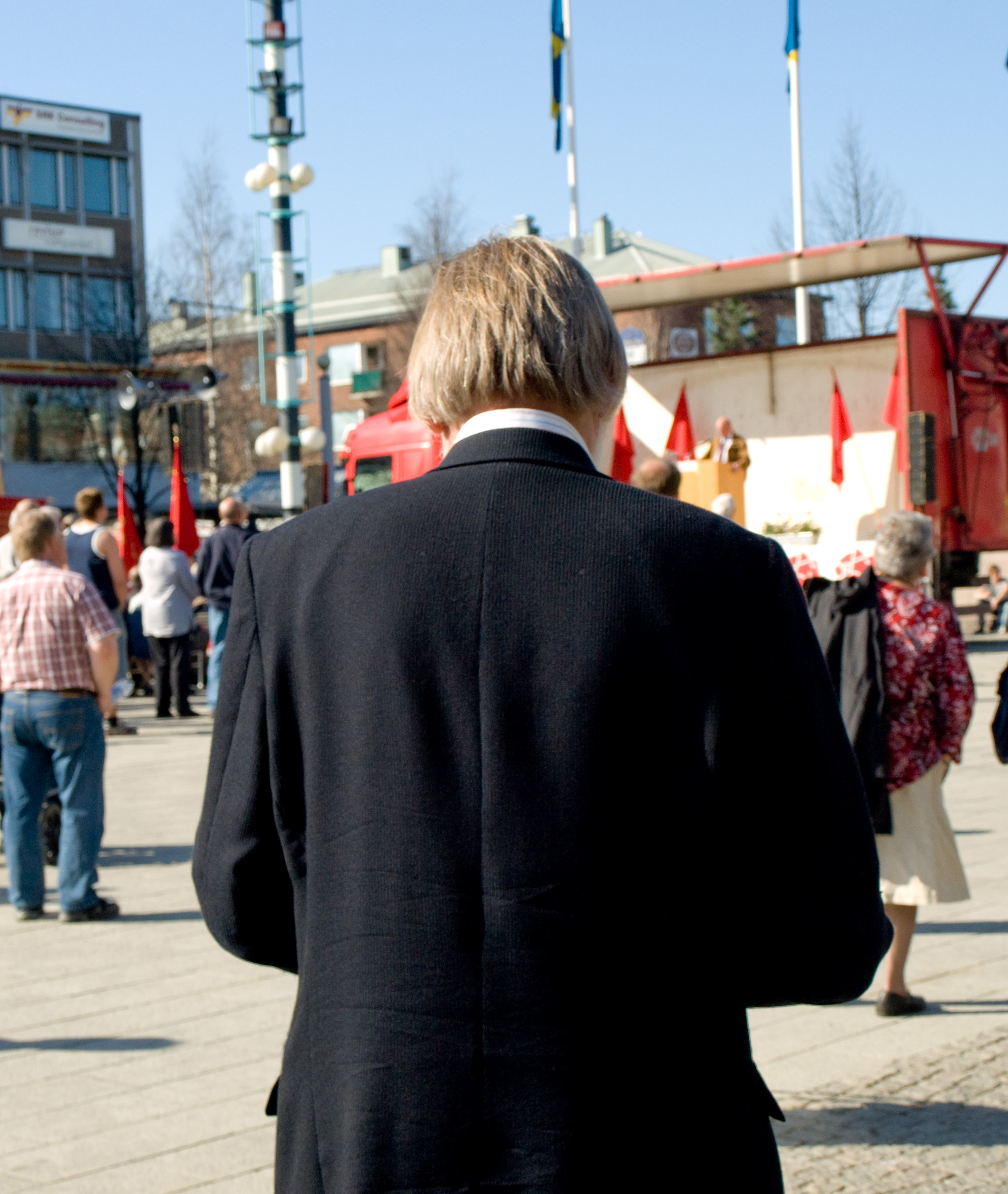 Ola Theander at the first of may demonstrations in Skellefteå, Sweden, in 2009.